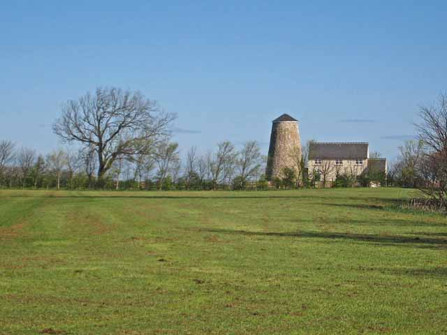 The house converted Dean Bank Mill, Ferryhill, Co Durham